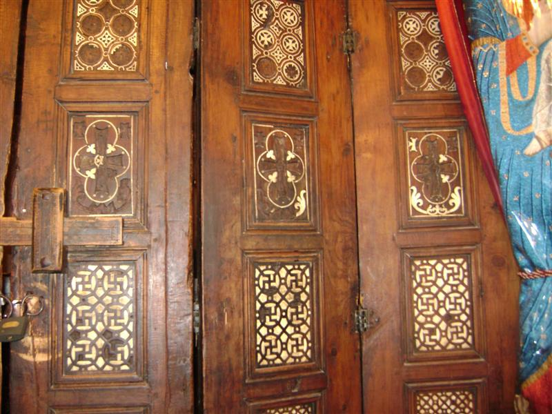 Door of Prophecies at the Christian Syrian Monastery in Egypt